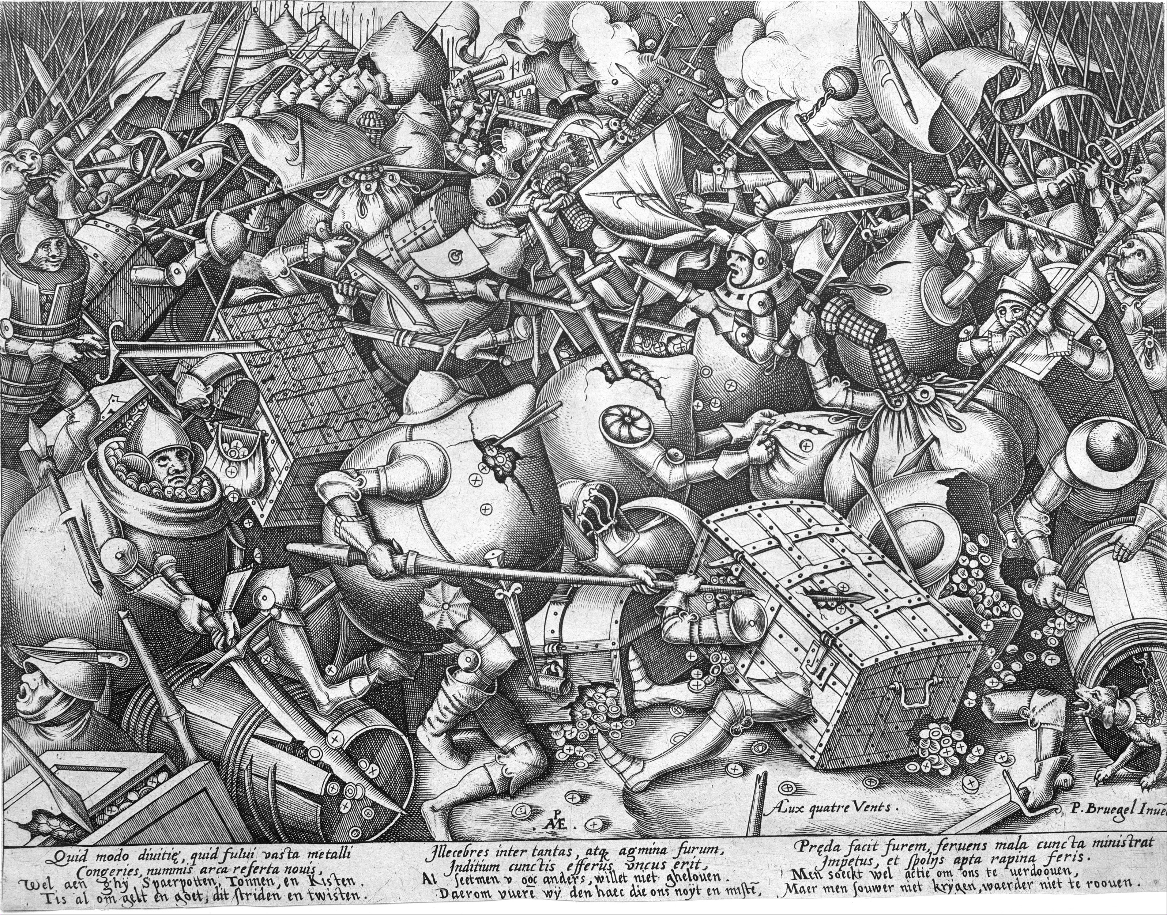 Print; Prints